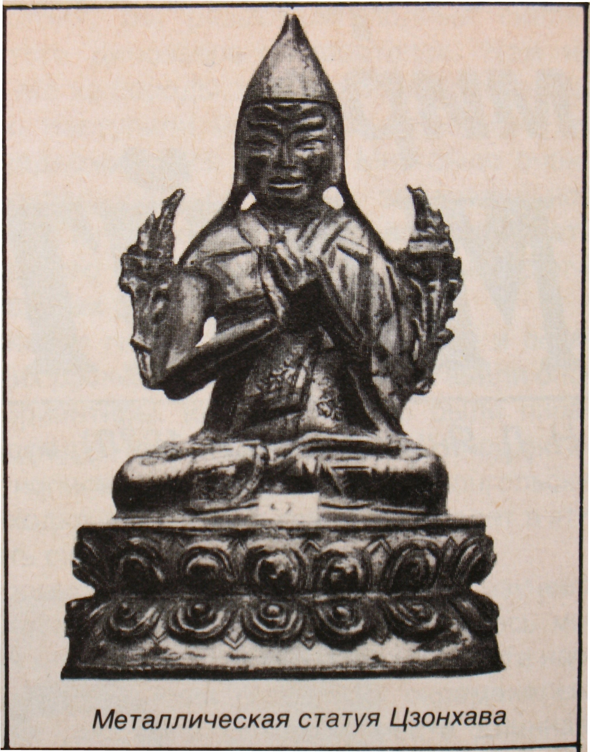 Gombojab Tsybikov photo in Tibet. Статуя Цзонхава (Цонкапа, металл). Фотография сделана в Тибете скрытой камерой через прорезь в молитвенной мельнице.